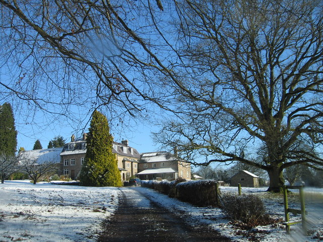 Ty Mawr Convent This Anglican convent is about 6 miles south of Monmouth; a quiet and tranquil place, which warmly welcomes visitors of all faiths or none.